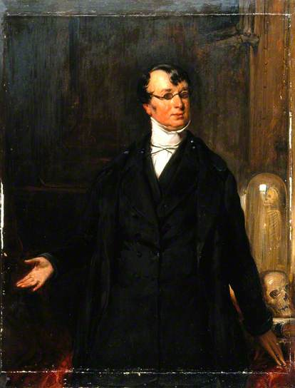 Oil on wood painting by William Bonnar (1800-1853) of the Manchester-based surgeon Thomas Turner (1793-1873). Wellcome Library no. 45833i.